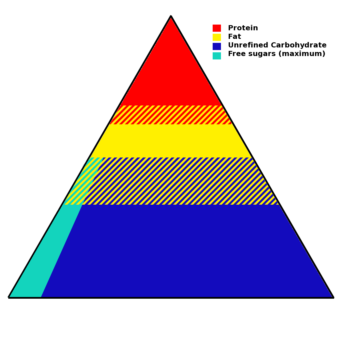 WHO Food Guidelines Summary Pyramid